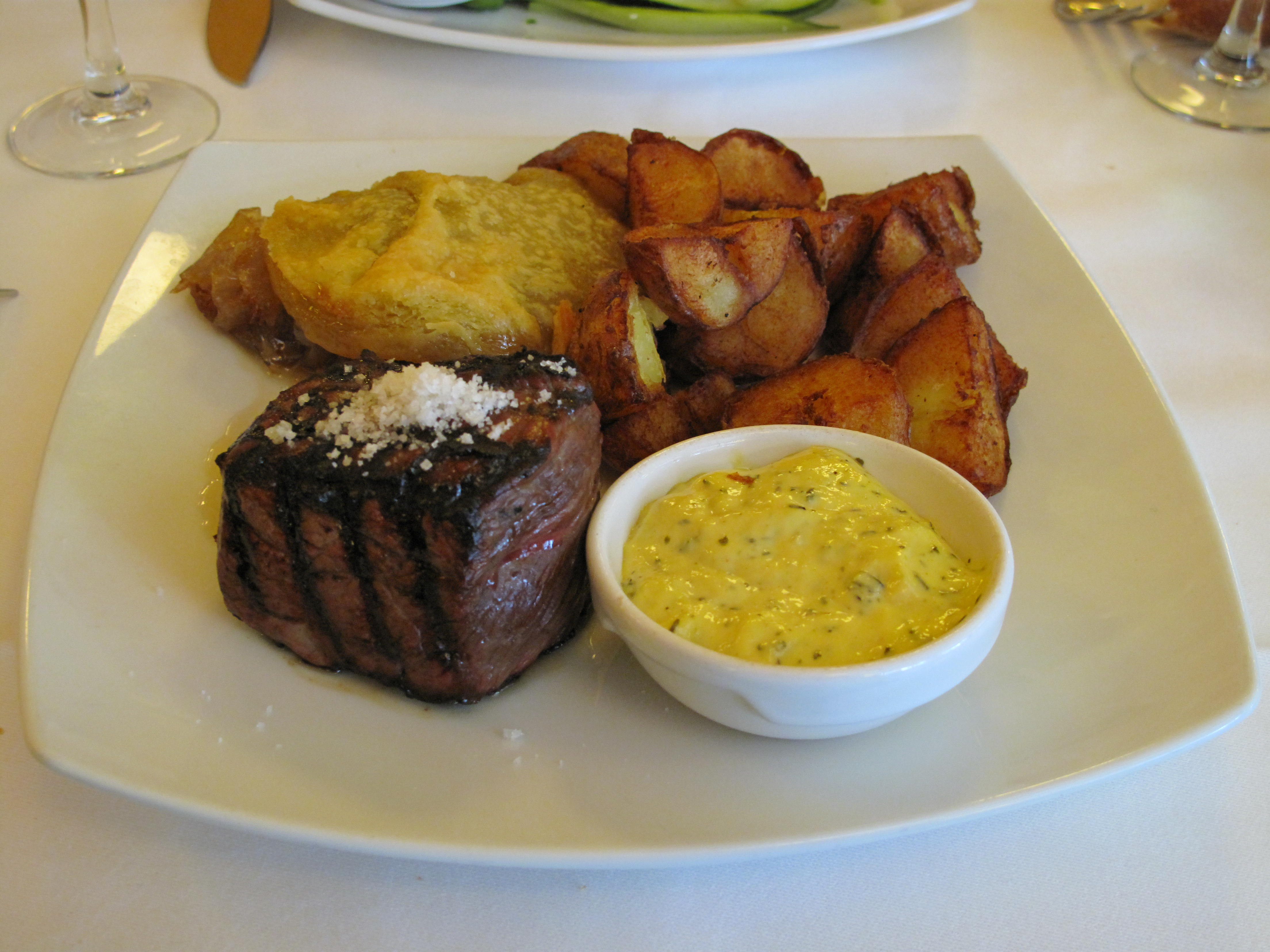 Strip steak with tatin of shallots and bearnaise sauce. Restaurant "les Ministères", 30 rue du Bac, Paris 7th arrond.